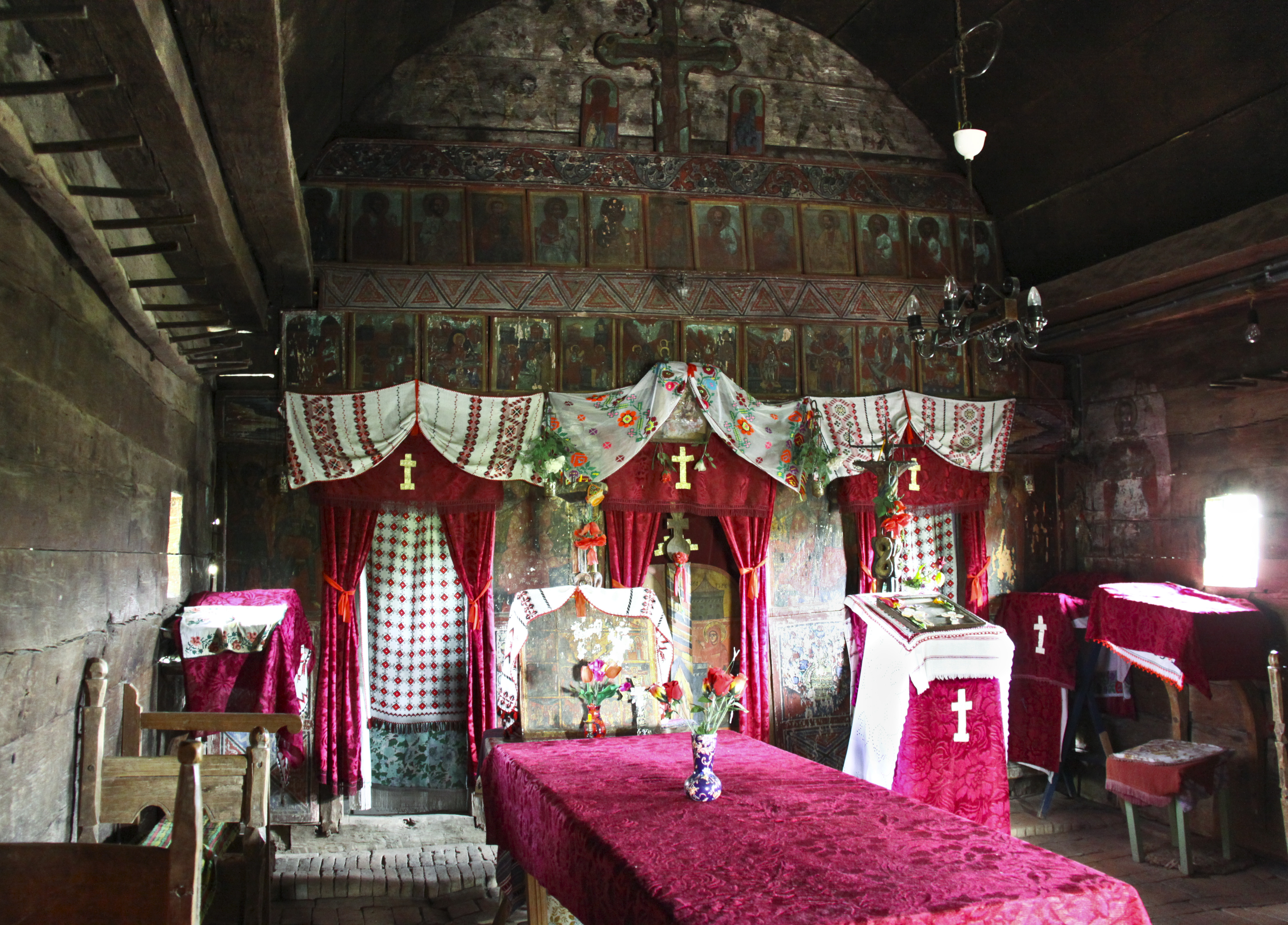 Olteanca-Sânculeşti, Vâlcea county, Romania: the wooden church.